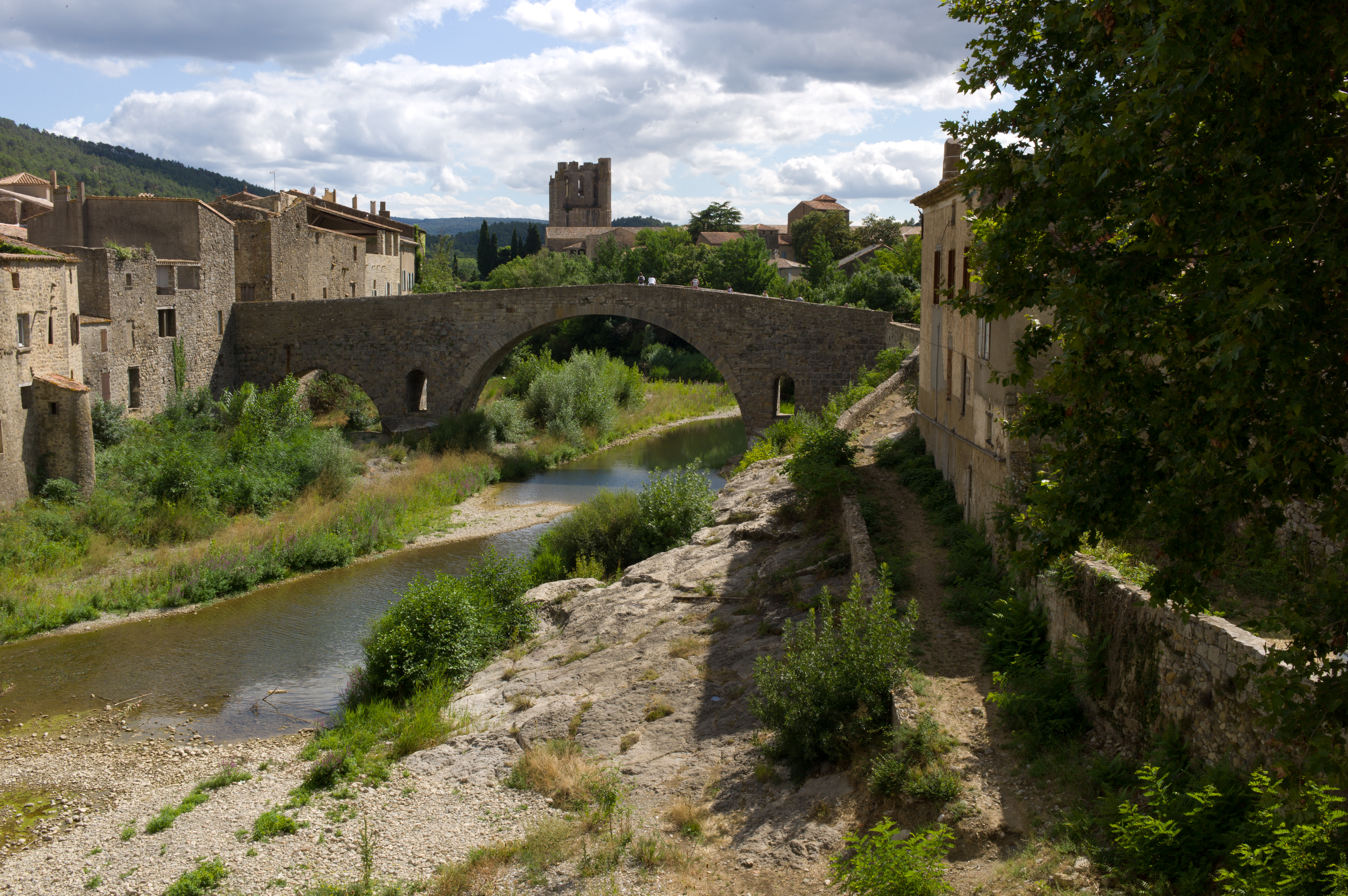 Lagrasse (Aude) village and old bridge in the summer.